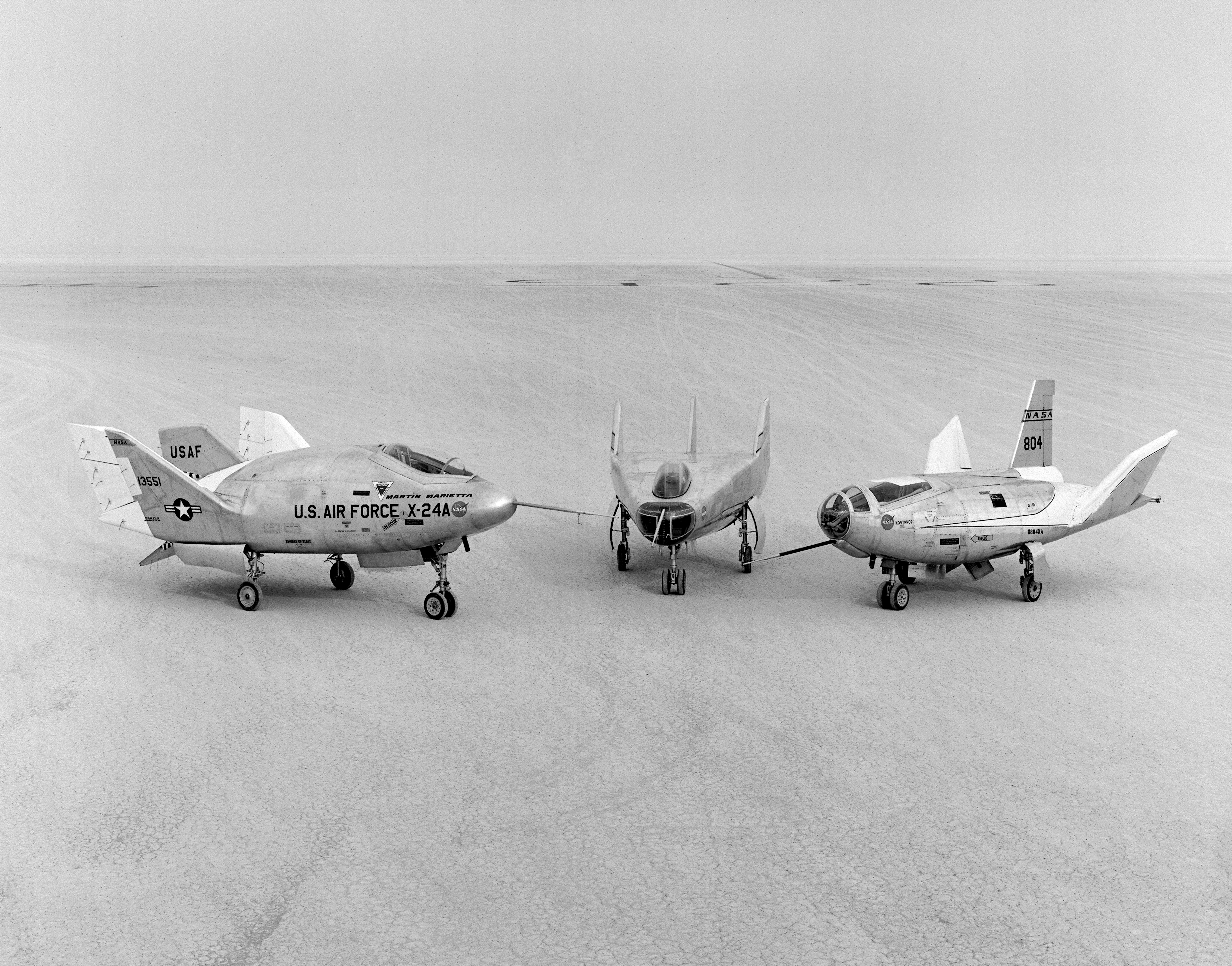 Three lifting bodies on Lakebed (X-24A, M2-F3, HL-10)